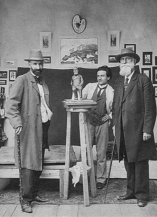 Tumanyan and Aghayan in Mikael Mikaelyan's workshop